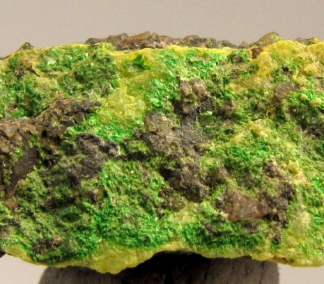 Locality: White Canyon No.1, Deer Flat, White Canyon, White Canyon District, San Juan Co., Utah, USA Dimensions: 4.9 cm x 2.3 cm x 1.4 cm Voglite and liebigite are rare secondary uranium minerals. Voglite is very rare and forms from the alteration of uraninite. This colorful, rich specimen features bright grass green voglite crystals attractively covering crusts of yellow liebigite on a sliver of coarse sandstone matrix. Ex. John White Collection of Seattle and acquired in October, 1968, according to his faded label.